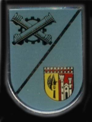 Ulmen Ammunition Depot